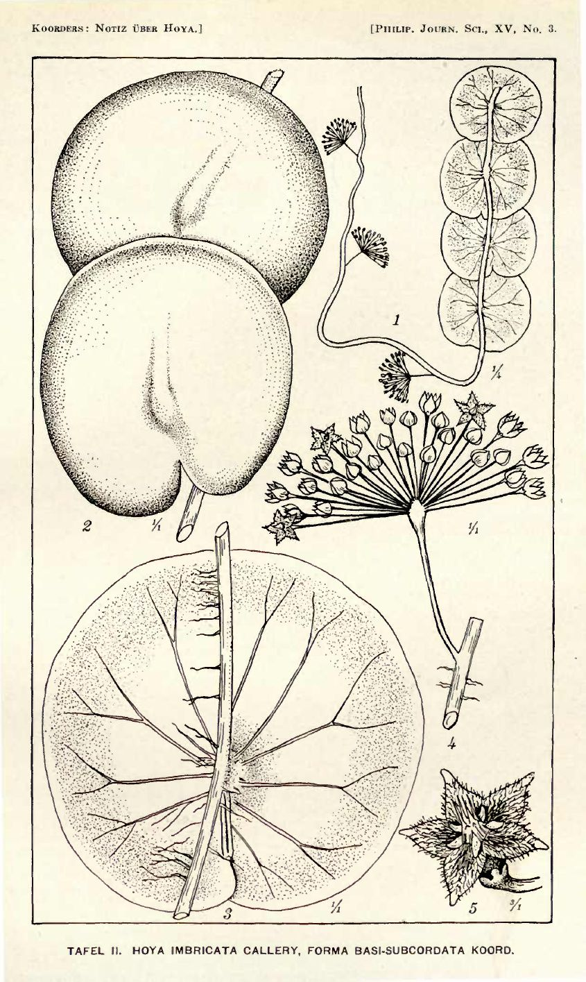 Hoya imbricata Decne.